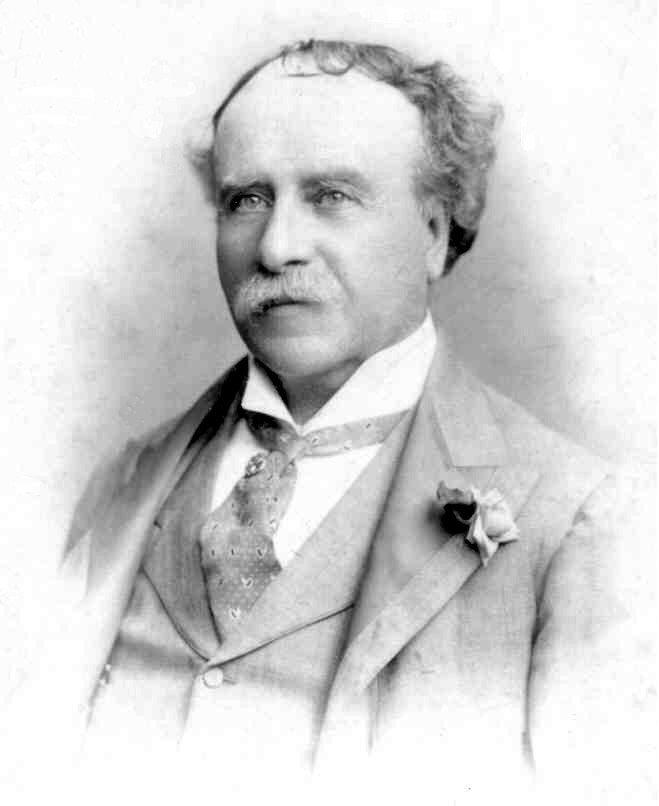 Photograph of William Hayman Cummings (1831-1915)